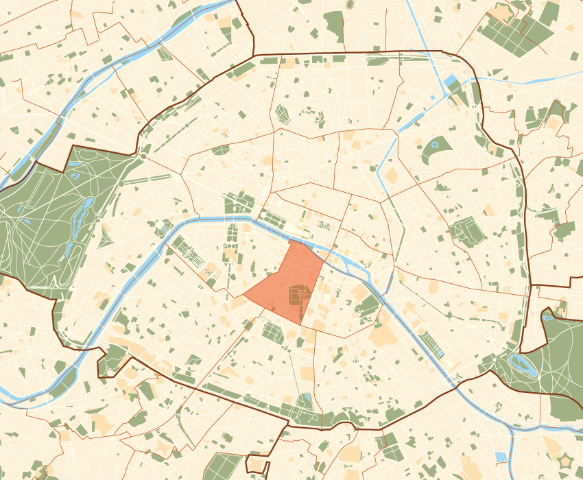 Plan by ThePromenader (own work)